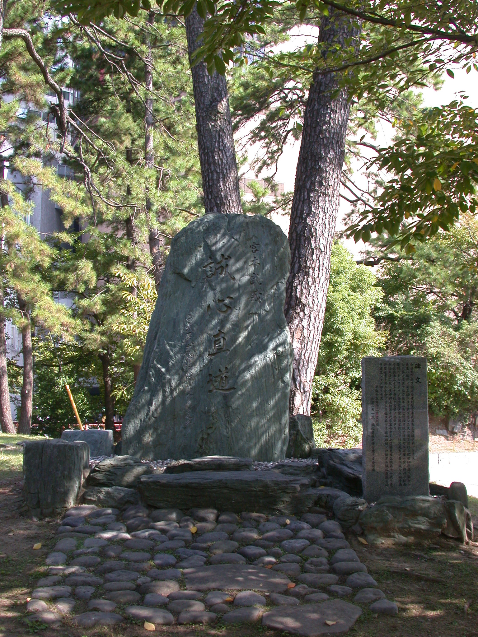 Kokura monument to Miyamoto Musashi with inscription: "Seishin Chokudo" Earnest heart, Straight Path (Kokura, Kitakyushu,, Kyushu, Japan)